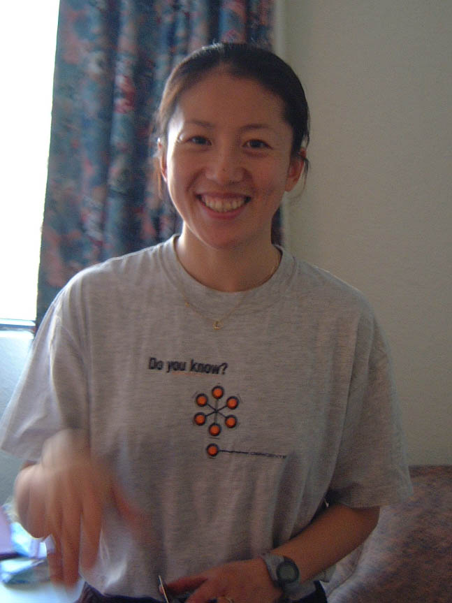 Picture of Yang Yang (A) Taken in Hotel room in Montreal in the year 2002: Author: Alain de Lamirande